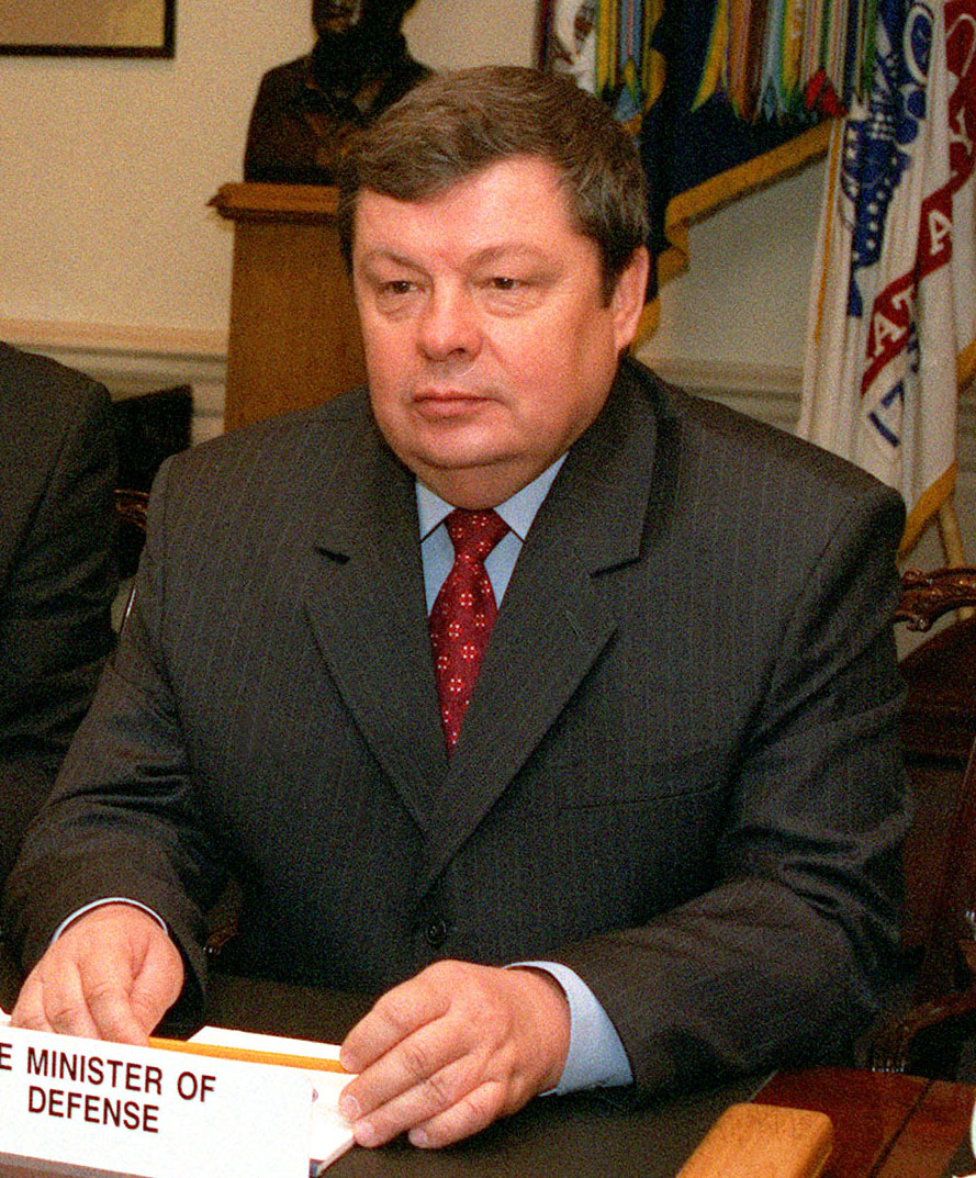 Volodymyr Shkidchenko, Minister of Defense of Ukraine in 2001—2003, in Washington, D.C., October 2002